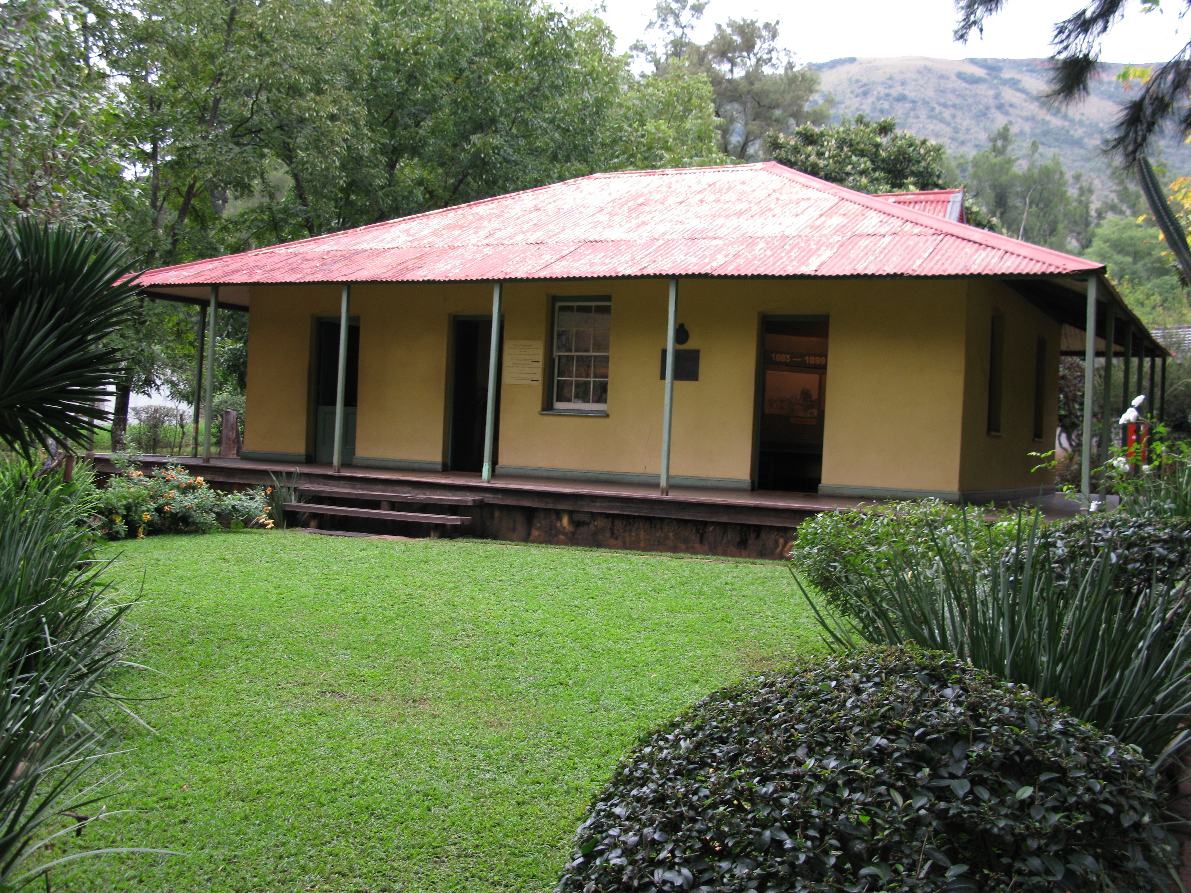 Krugerhof, Waterval Onder, Waterval Boven District This media shows a South African Protected Site with SAHRA file reference 9/2/282/0005.